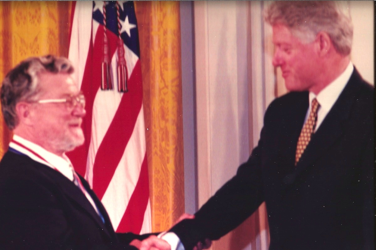 Don L. Anderson receives the National Medal of Science from Bill Clinton in 1999